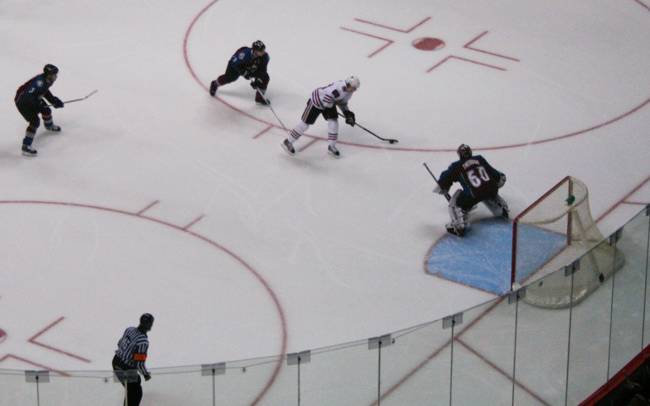 First goal of the game by Patrick Kane.